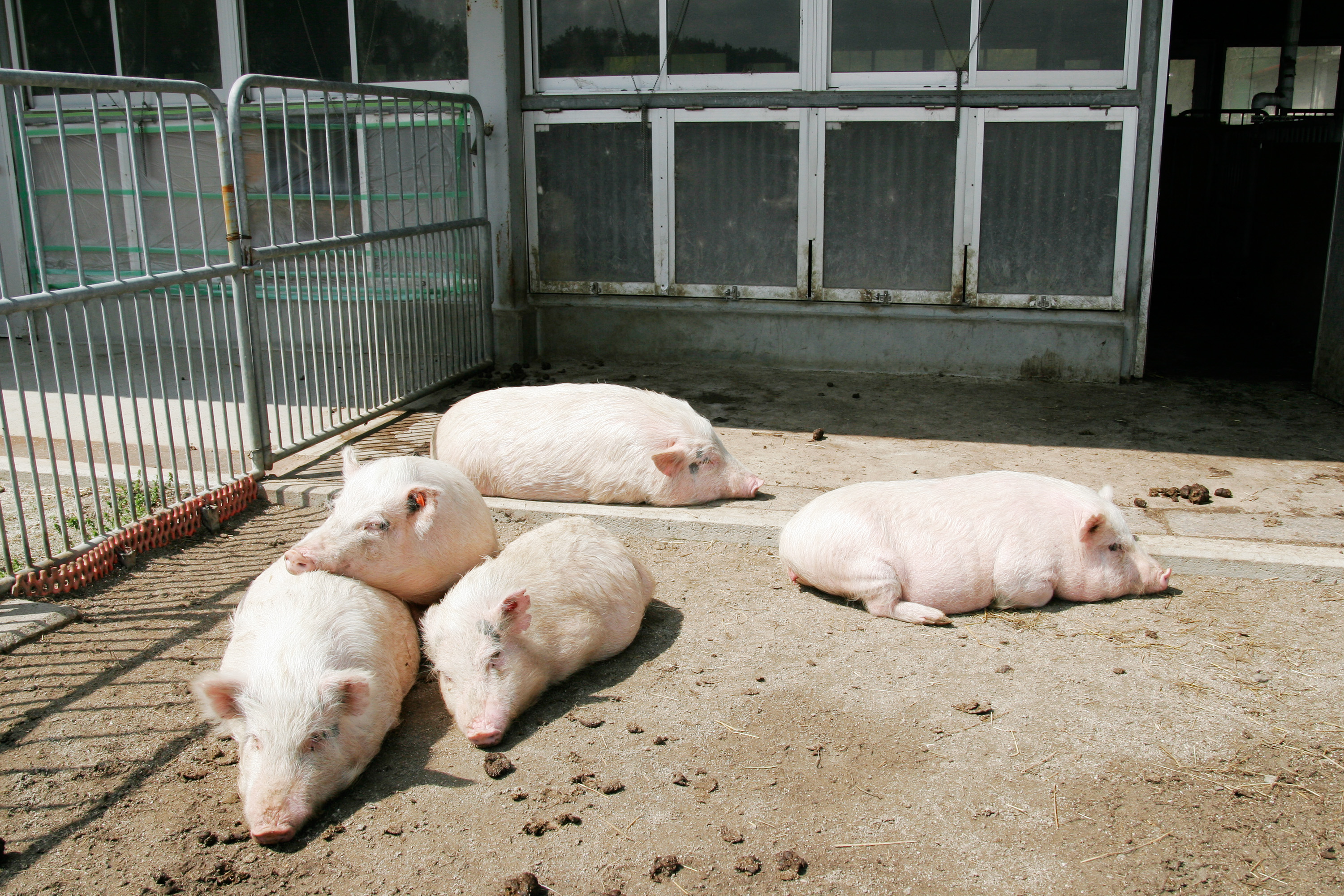 Saijo Station Farm, Faculty of Applied Biological Science